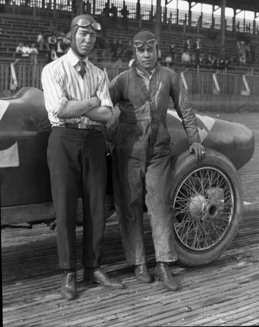 This is speed king Jimmy Murphy (at left) with his mechanic, Ernie Olson, on the board track of the Tacoma Speedway circa the summer of 1920. He had entered the 9th annual race as a newcomer to the Pacific Northwest but had already started to establish himself as a rising star in the world of auto racing. He and his mechanic are standing in front of his Duesenberg, one of four entered in the July 5th race. The 1920 Tacoma race was filled with veteran well-known drivers including 1920 Indy 500 winner Gaston Chevrolet, NW favorite Eddie Hearne, Roscoe Sarles, Eddie O'Donnell, Ralph DePalma, Cliff Durant, Ralph Mulford and the eventual winner, Tommy Milton. Mr. Murphy drove well and finished sixth, claiming a payday of $1,100. In 1922 he returned to the Tacoma Speedway and won the last big race held there. (Tacoma Sunday Ledger 6-20-20, 3B-article; TDL 7-6-20, p. 1+-results)